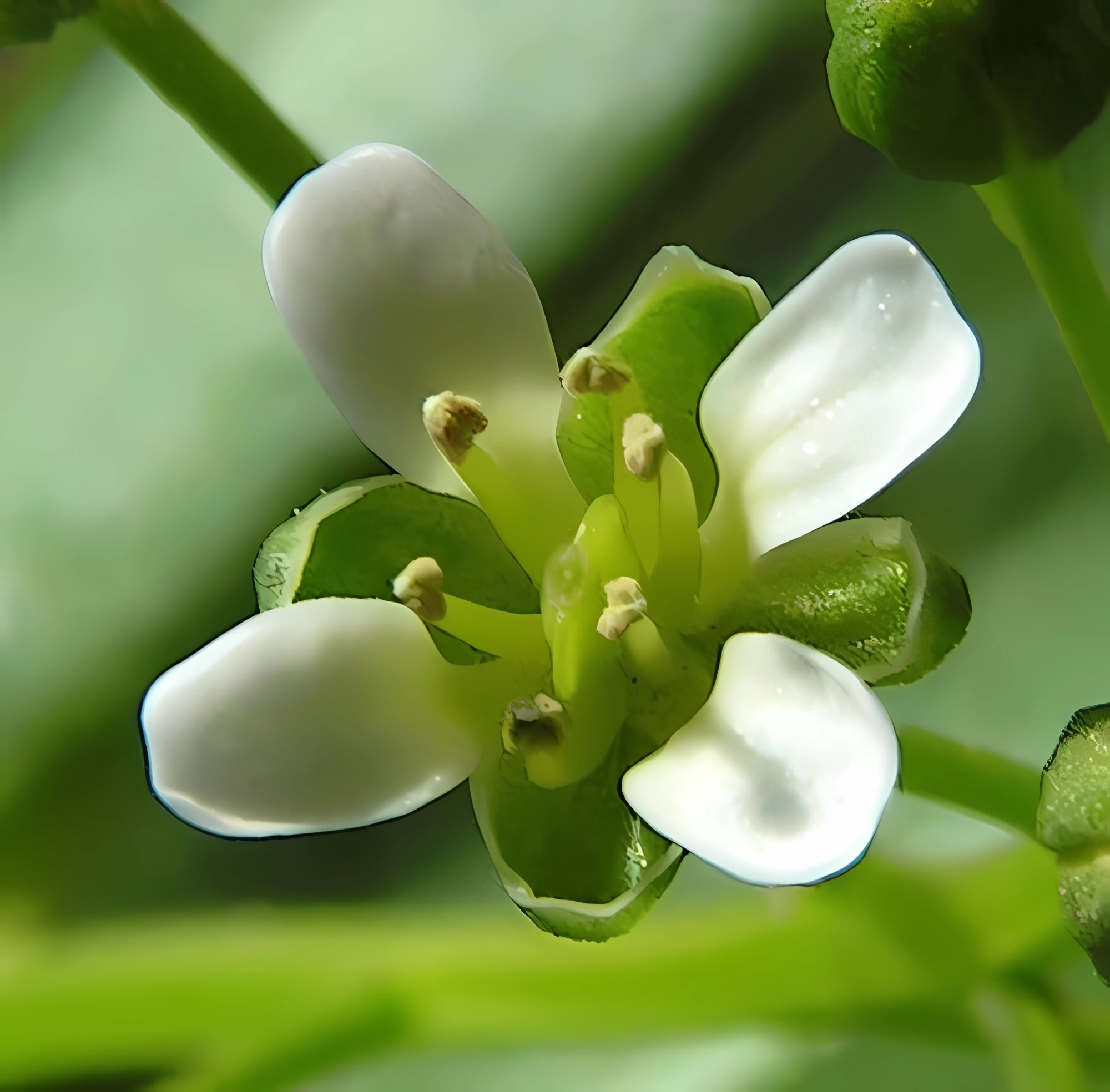 Flower of Thlaspi arvense. Size of the flower is appr. 5 mm. Moscow region, Russia.